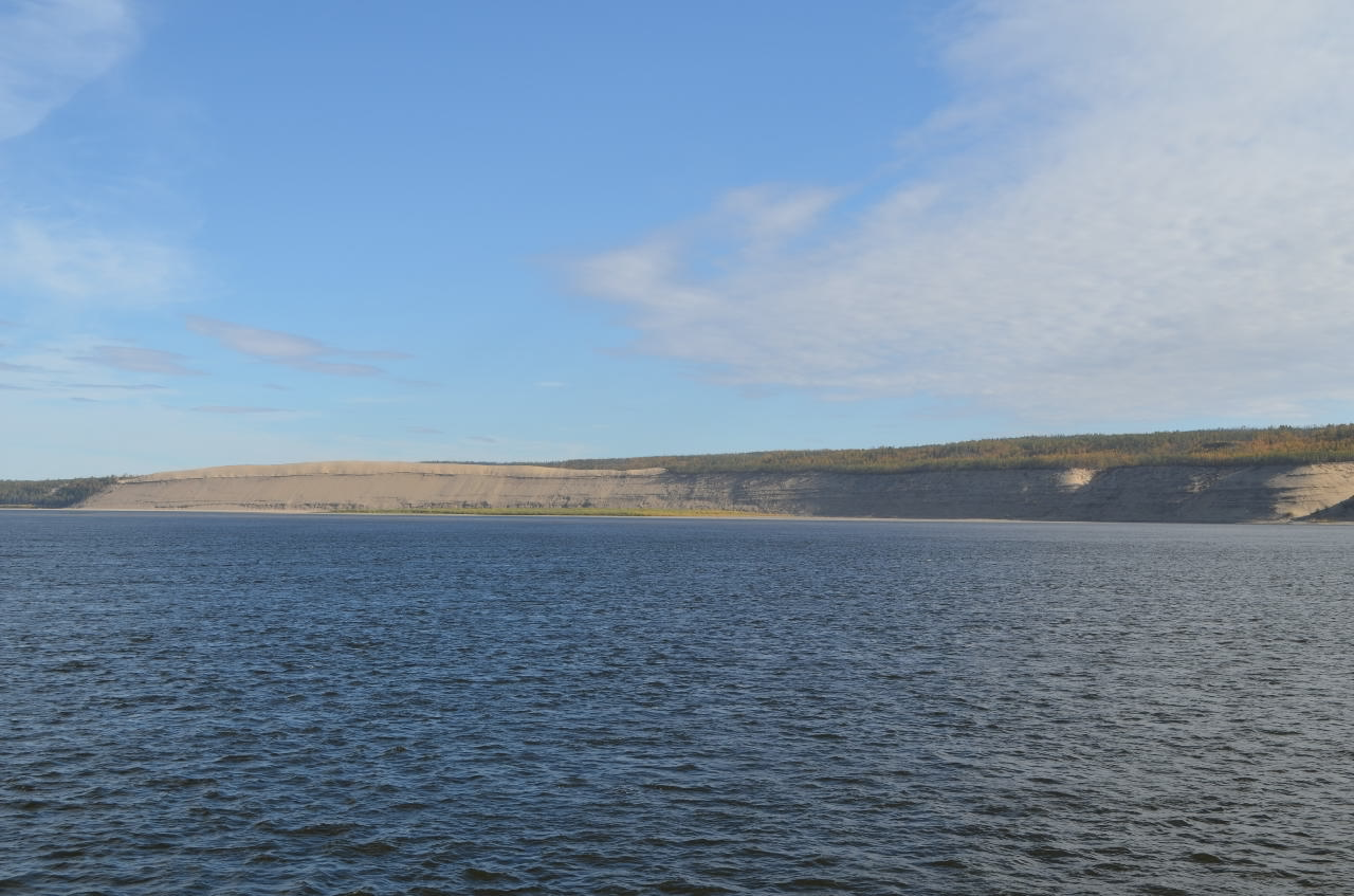 This photos are made during cruise Yakutsk — Lеnskiye Shchyoki, Lena Cheeks — Yakutsk (with arrival in Mirny), 05.09−17.09.2016